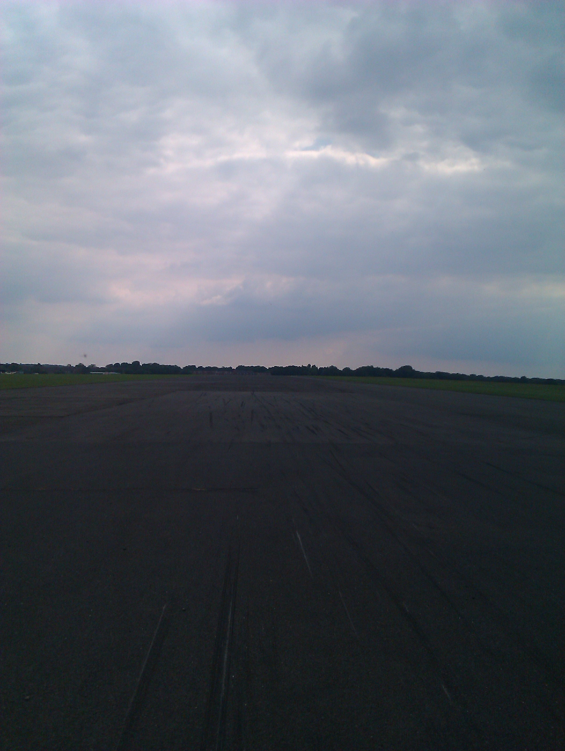 Looking down the North/South runway from the Northern end at Kenley Aerodrome, UK.